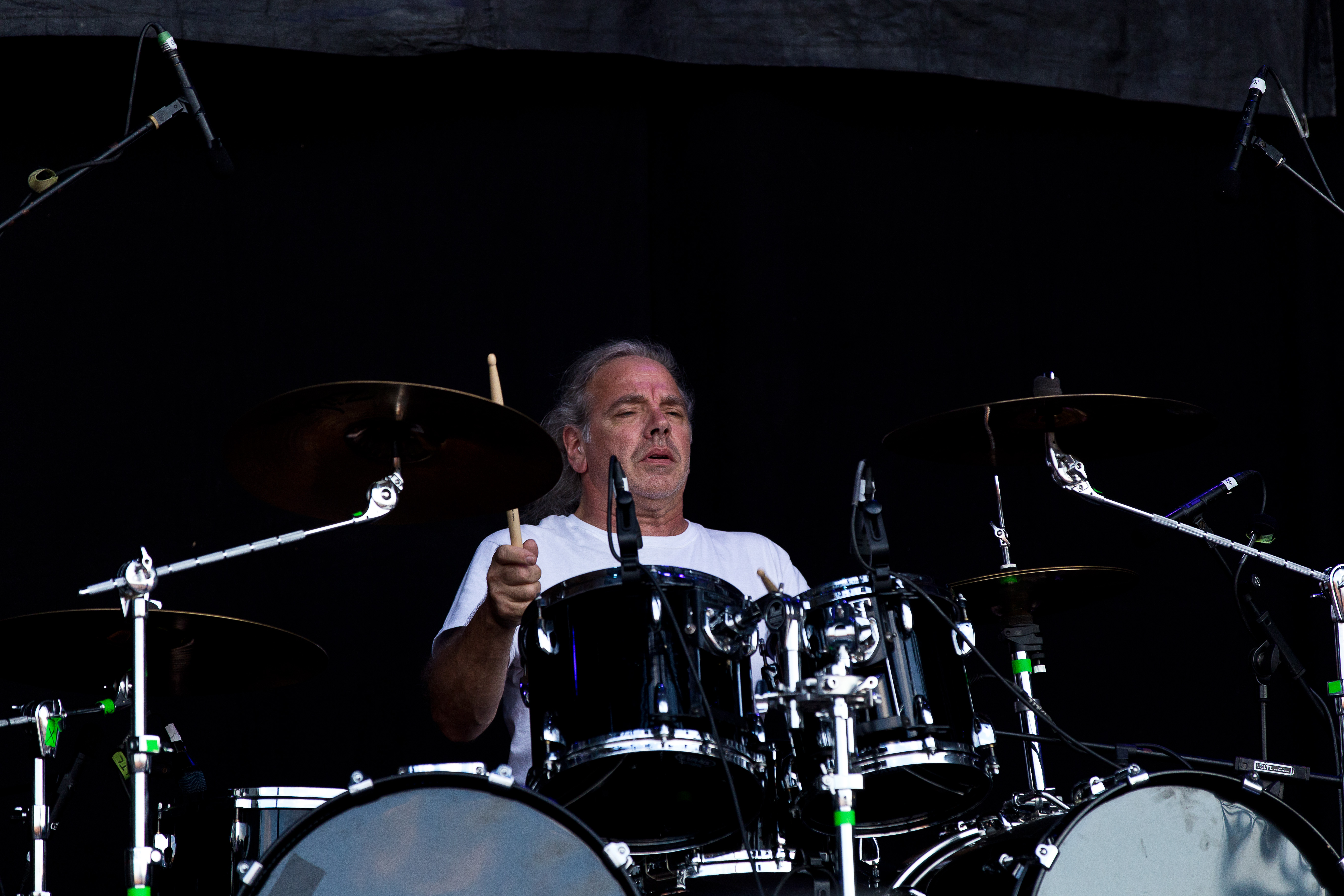 The US thrash metal band Nuclear Assault at the Party.San Open Air 2015 in Obermehler-Schlotheim/Germany.